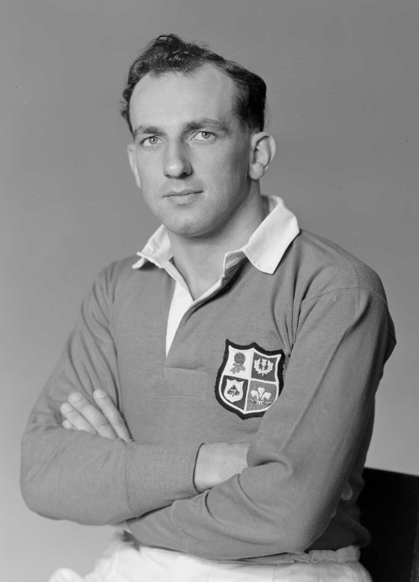 T Preece, member of the Lions, British representative rugby union team